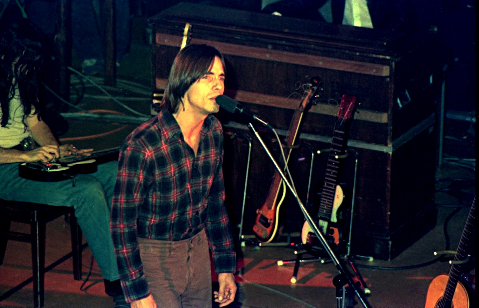 Jackson Browne singing and a partial view of David Lindley playing lap steel guitar in the background